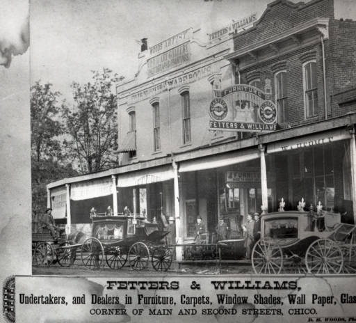 This is an image of the Fetters and Williams furniture store and undertakers in downtown Chico, California in 1885. It was owned by Frederick C. Williams, a mayor of Chico from 1895 to 1897.